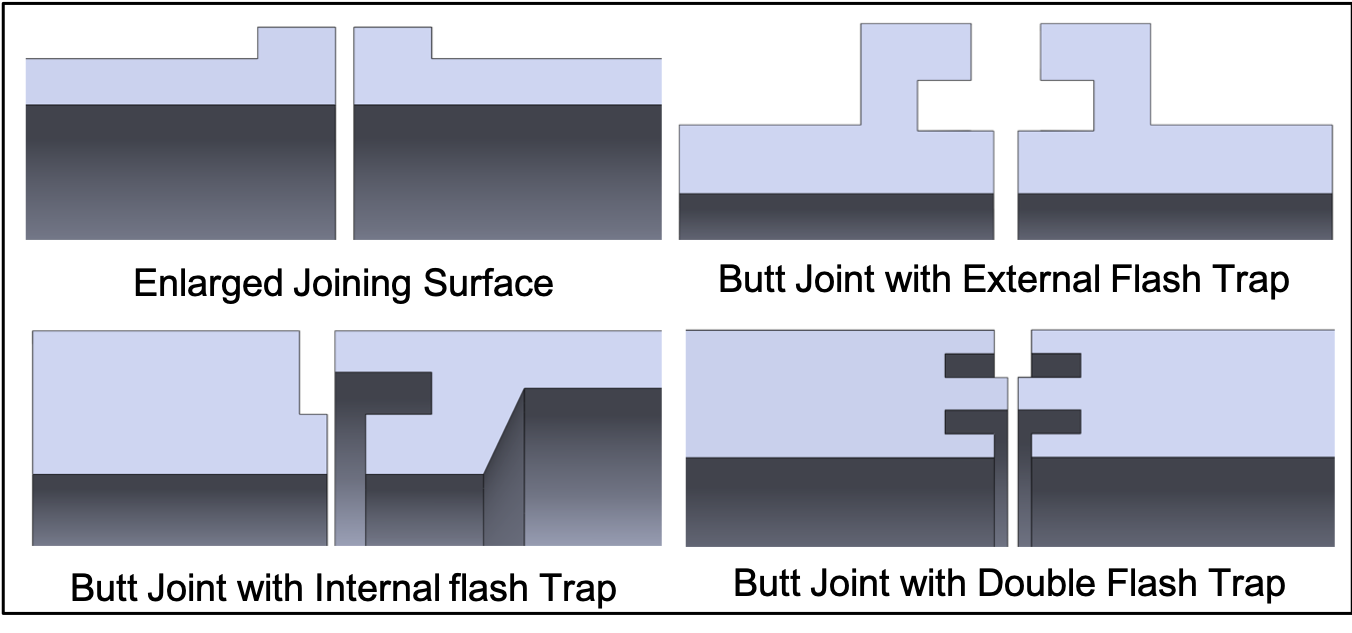 Polymer Joint Design, Based on Fig. 3.11, Fig. 3.12, Fig. 3.13, Fig. 3.14 in Pecha, Ernst; Savitski, Alexander (2003). "Heated Tool (Hot Plate) Welding". In Grewell, David A.; Benatar, Avraham; Park, Joon B. Plastics and Composites Welding Handbook. Munich: Hanser. pp. 29–71. ISBN 1-56990-313-1.